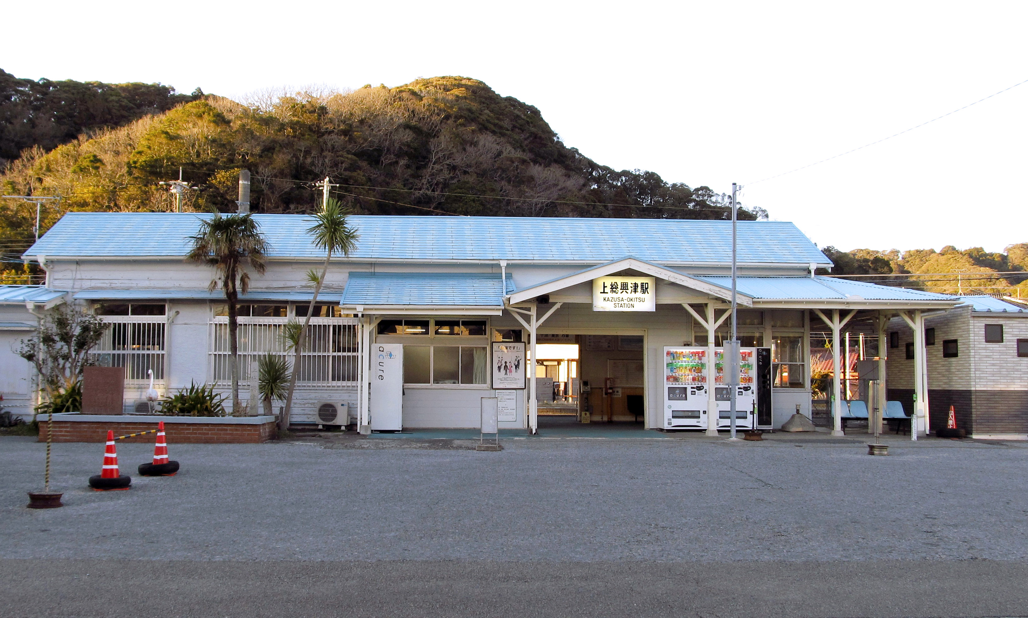 The building of Kazusa-Okitsu Station on the Sotobō Line in Katsuura city, Chiba prefecture, Japan